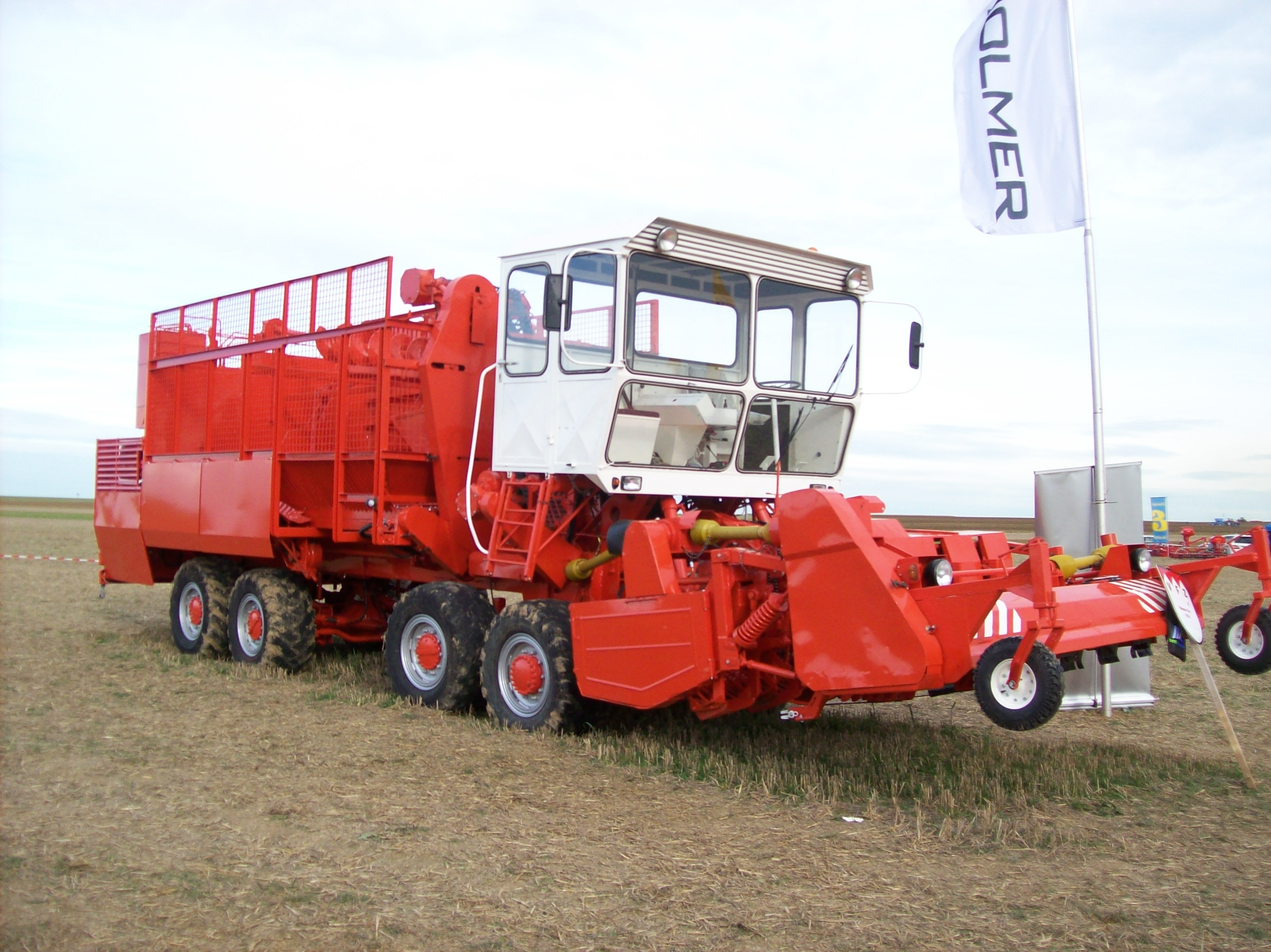 Holmer 4-axle beet harvester year 1974, front right view, photo on "bed europe 2012"